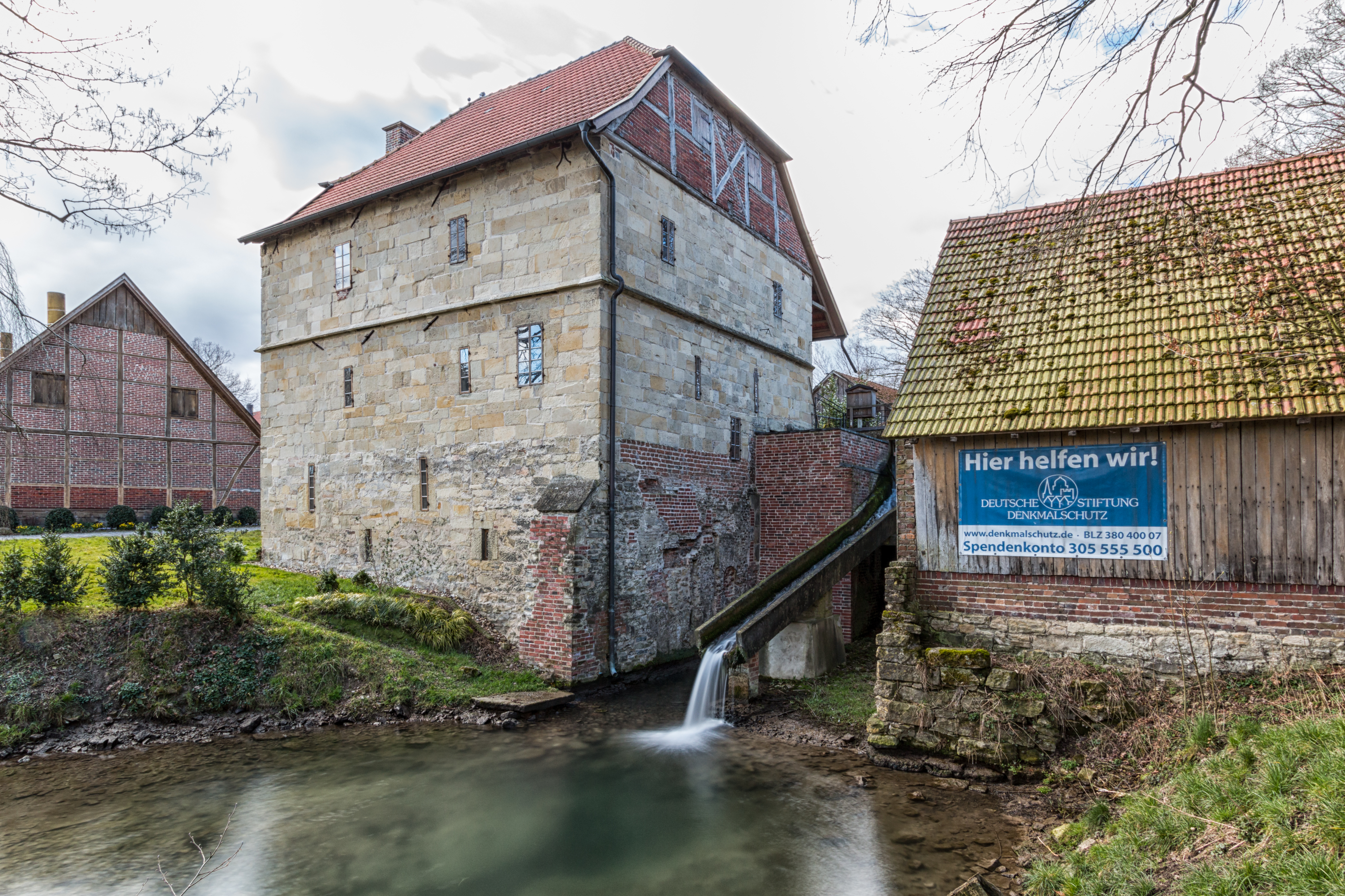 Watermill Schulze Westerath, Nottuln, North Rhine-Westphalia, Germany This image shows a heritage building in Germany, located in the North Rhine-Westphalian city Nottuln (no. A083).